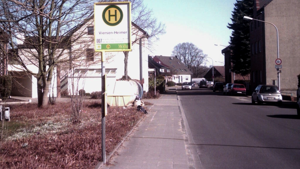 Bus-Stop in Heimer, Viersen, Germany